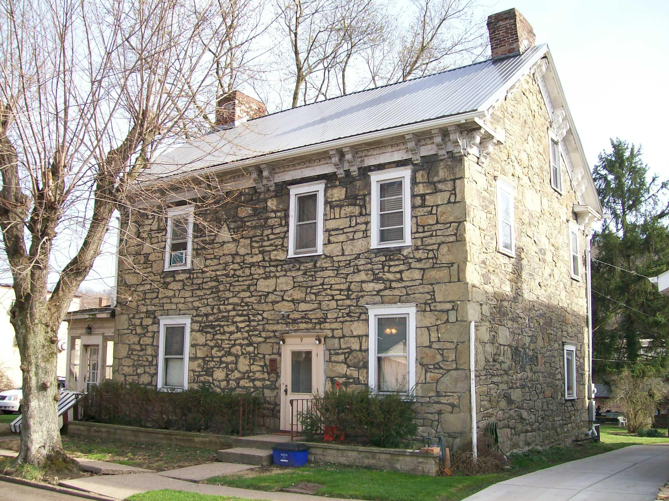 Feay Inn at 9 Burkham Court in Triadelphia, West Virginia. The inn is now a private residence. Photographed from its northern facade on April 2, 2010.